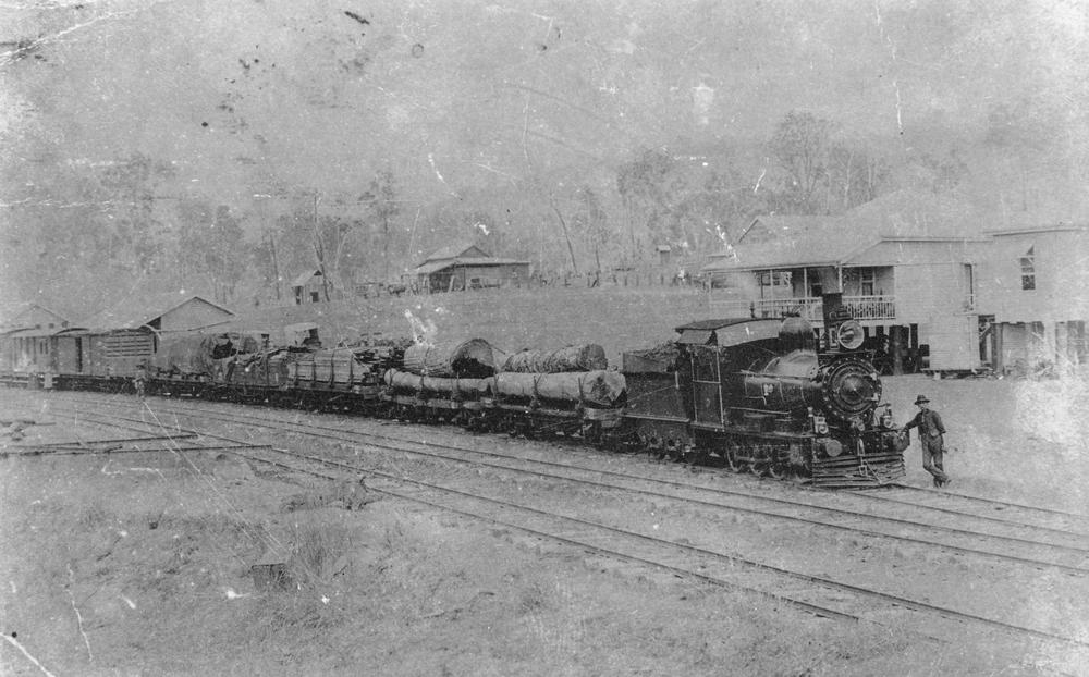 Train on the Beaudesert tramway halted at Rathdowney Station, 1912